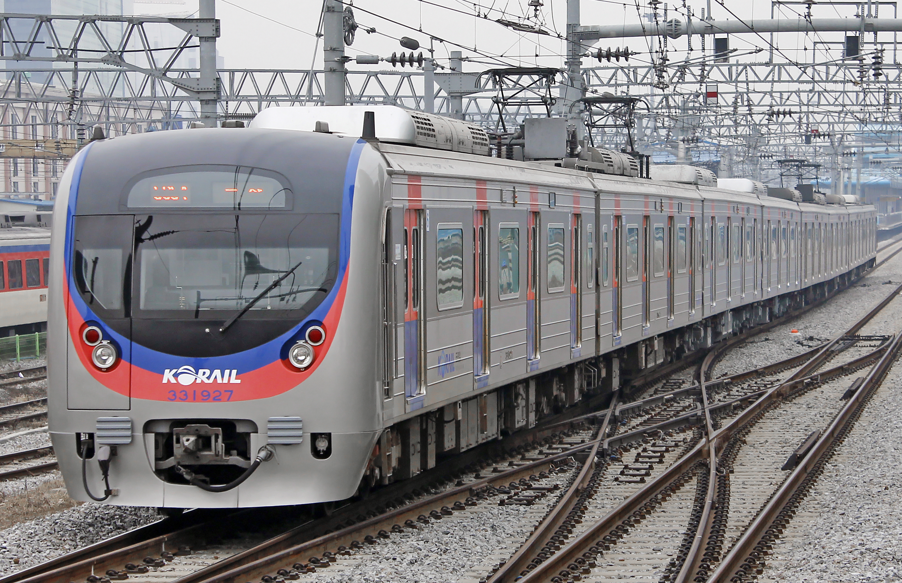 Korail EMU 331X27(Rear)